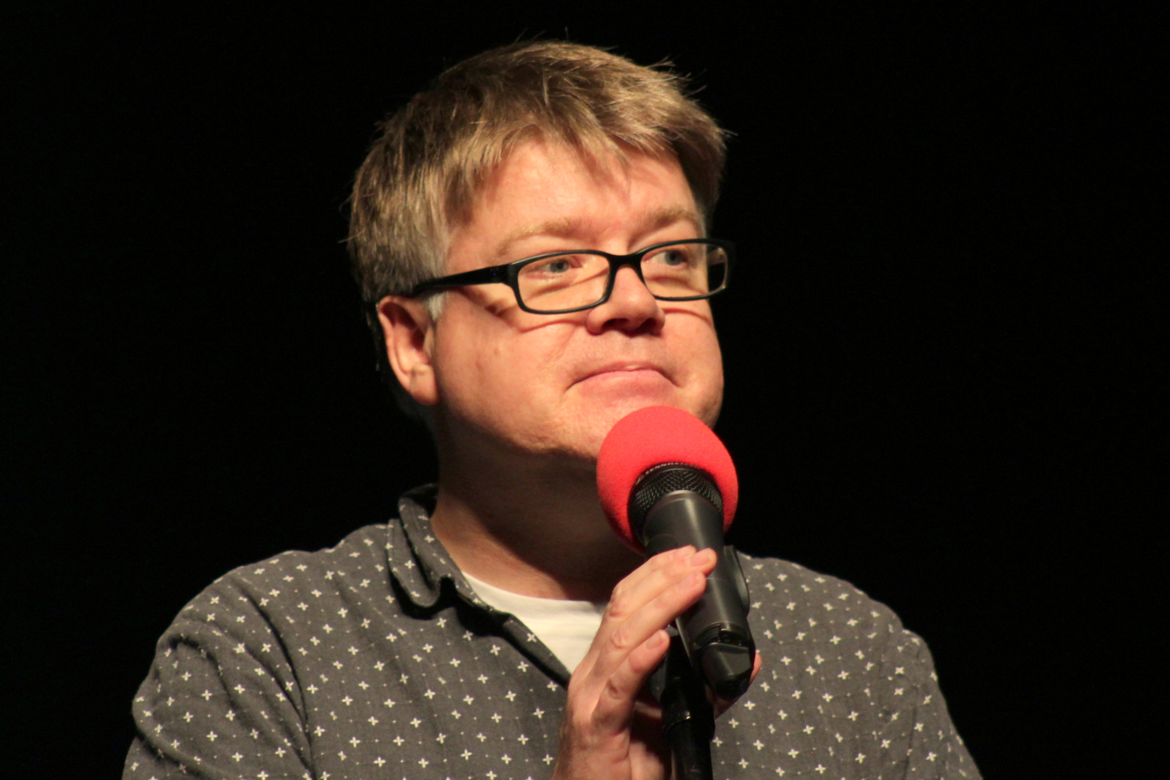 Jon Naismith, producer of I'm Sorry I Haven't a Clue, introducing the show in November 2014 at the Richmond Theatre.